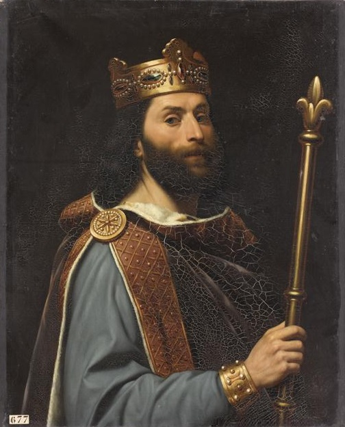 Portraits of Kings of France is a serie of portraits commissioned between 1837 and 1838 by Louis Philippe I and painted by various artists for the Musée historique de Versailles.